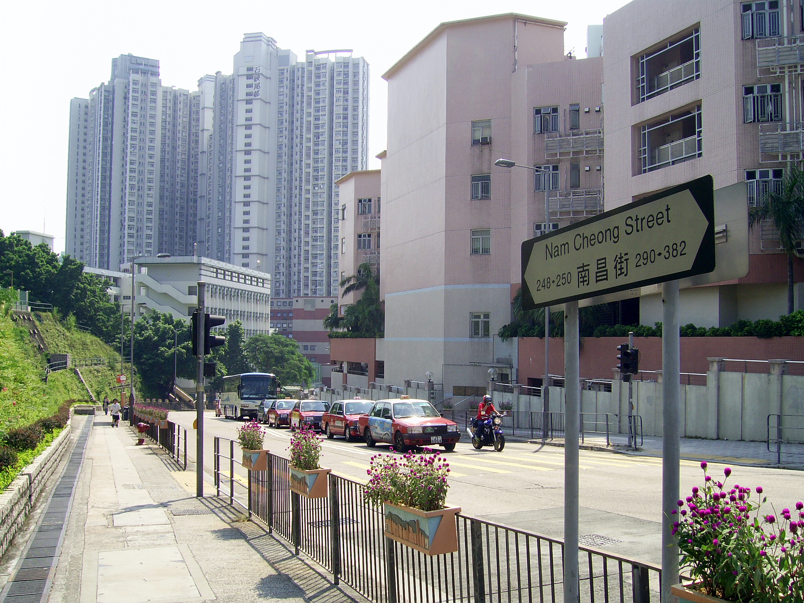 中文（香港）: 南昌街近白田邨 The towers in the background belong to Shek Kip Mei Estate (石硤尾邨)